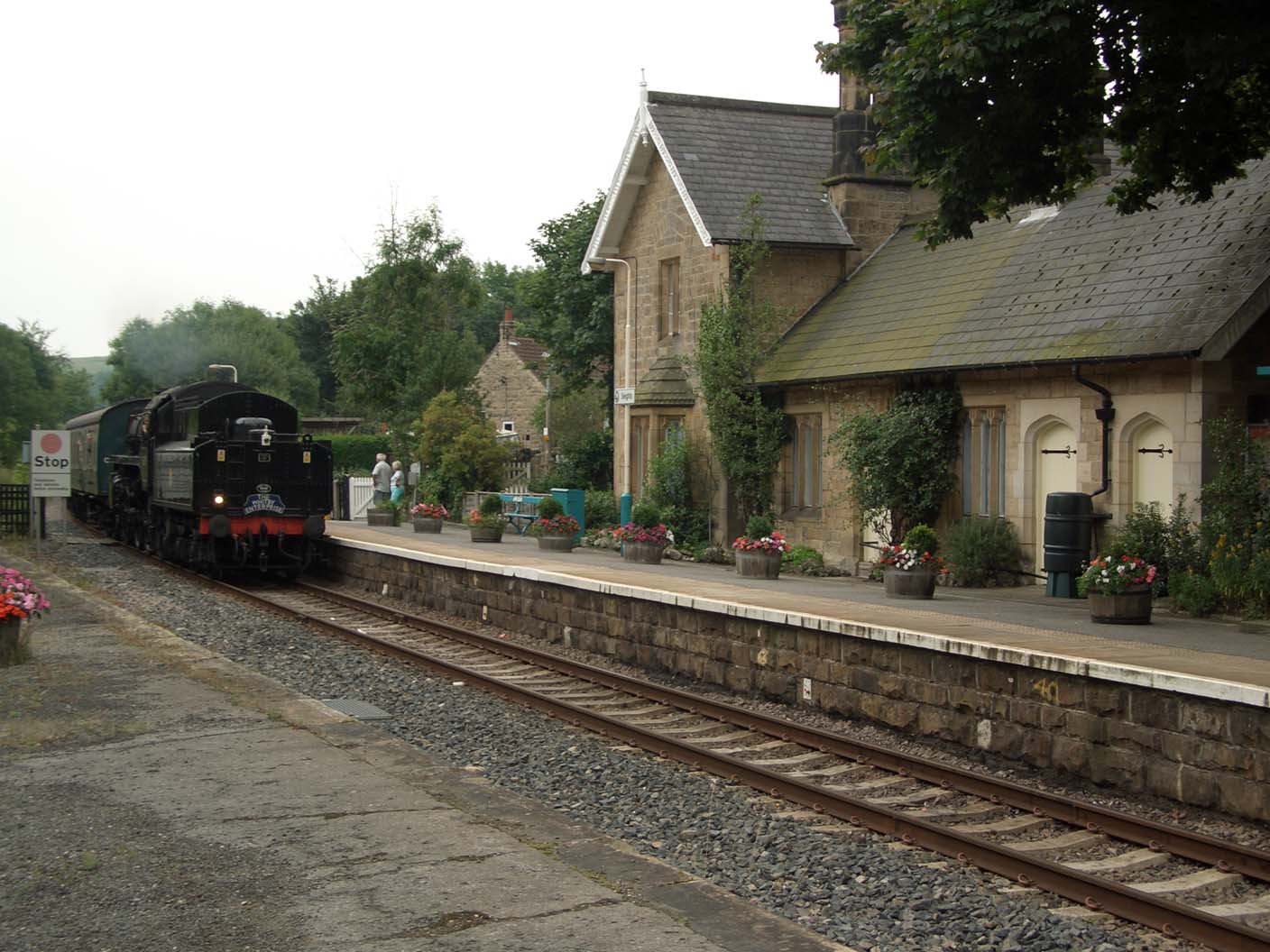 A steam train from Whitby to Grosmont operated by the North Yorkshire Moors Railway passes through Sleights Station, Esk Valley Railway. Mat Overton, 2006.